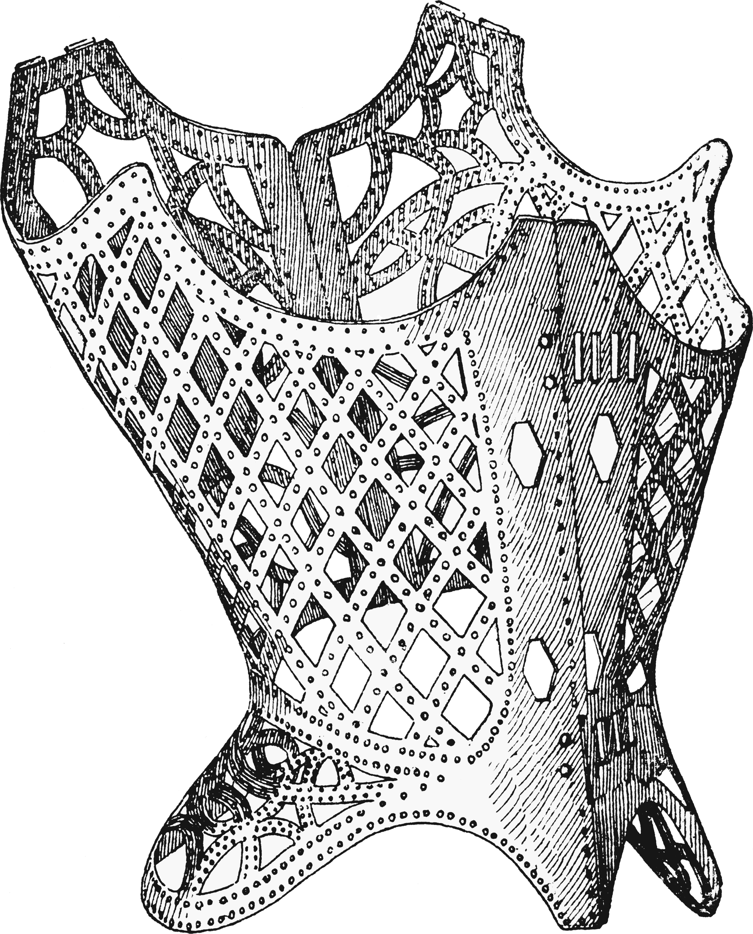 Sixteenth century iron corset